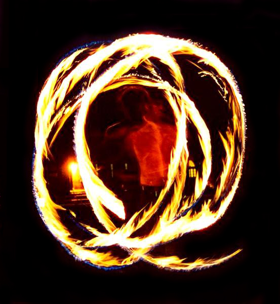 A Firedancer twirling flaming poi, taken at Wesleyan University.